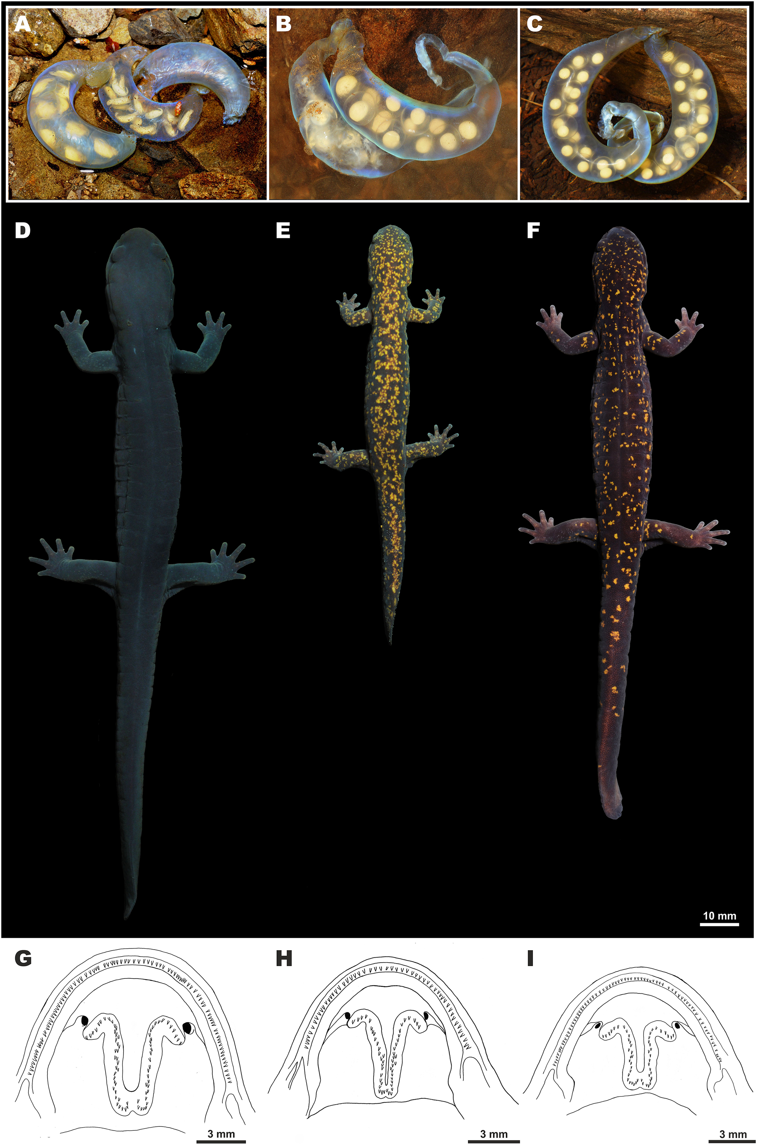 Upper row—egg sac morphology members in situ: (A) H. boulengeri (Nara Prefecture) (whiptail-like structure already fallen apart; photo by N. Kawazoe); (B) H. kimurae sensu stricto (Kyoto) (photo by N.A. Poyarkov); (C) Hynobius fossigenus sp. nov. (Tokyo) (photo by H. Okamiya). Middle row—typical dorsal coloration patterns of adults in life: (D) male H. boulengeri (ZMMU A-5842) (photo by N.A. Poyarkov); (E) male H. kimurae s. str. (ZMMU A-5904) (photo by N.A. Poyarkov); (F) male paratype of Hynobius fossigenus sp. nov. (YCM-RA-584) (photo by H. Okamiya). Lower row—open mouth cavities showing the shape of vomerine tooth series: (G) male H. boulengeri (ZMMU A-5842); (H) male H. kimurae s. str. (ZMMU A-5903); (I) male holotype of Hynobius fossigenus sp. nov. (ZMMU A-5862). Scale bar indicates 3 mm. Drawings by N.A. Poyarkov.